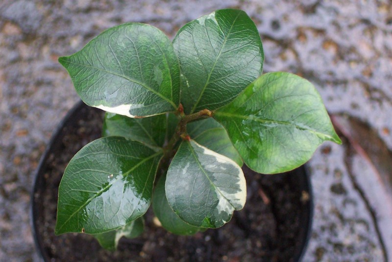 Cryptocarya williwilliana juvenile foliage with variegated leaves